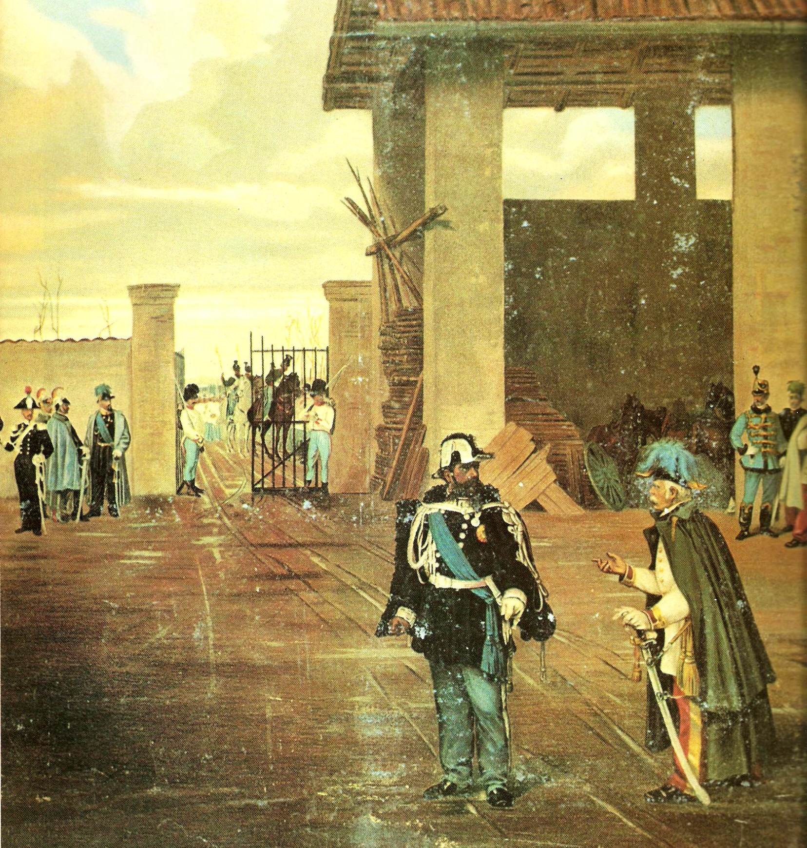 King of Sardinia Victor Emmanuel II and the fieldmarshall Josef Radetzky at the armistice of Vignale